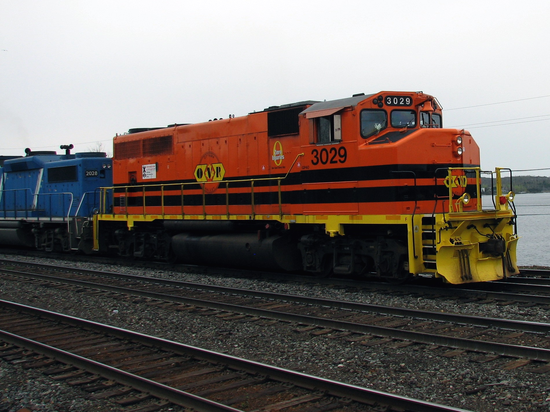 OVR GP40-2LW #3029 (ex CN #9426) is about to enter the CP Sudbury yard with CEFX #2028. Photo by Kenneth Reiss, May 20, 2014.